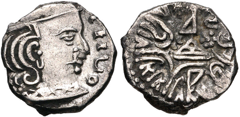 Bhadramukhas ruler Rudrasimha III Circa 385-415 CE. AR Drachm (14mm, 2.15 g, 8h). Uncertain date. Capped bust right / Three-arched hill; rosette to upper right.